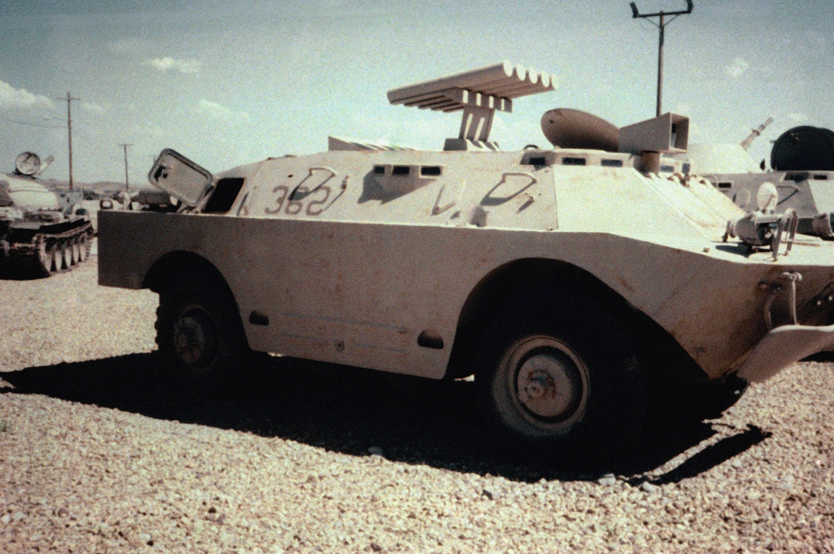 Right side view, on display, Soviet-made 9P148 Konkurs tank destroyer.